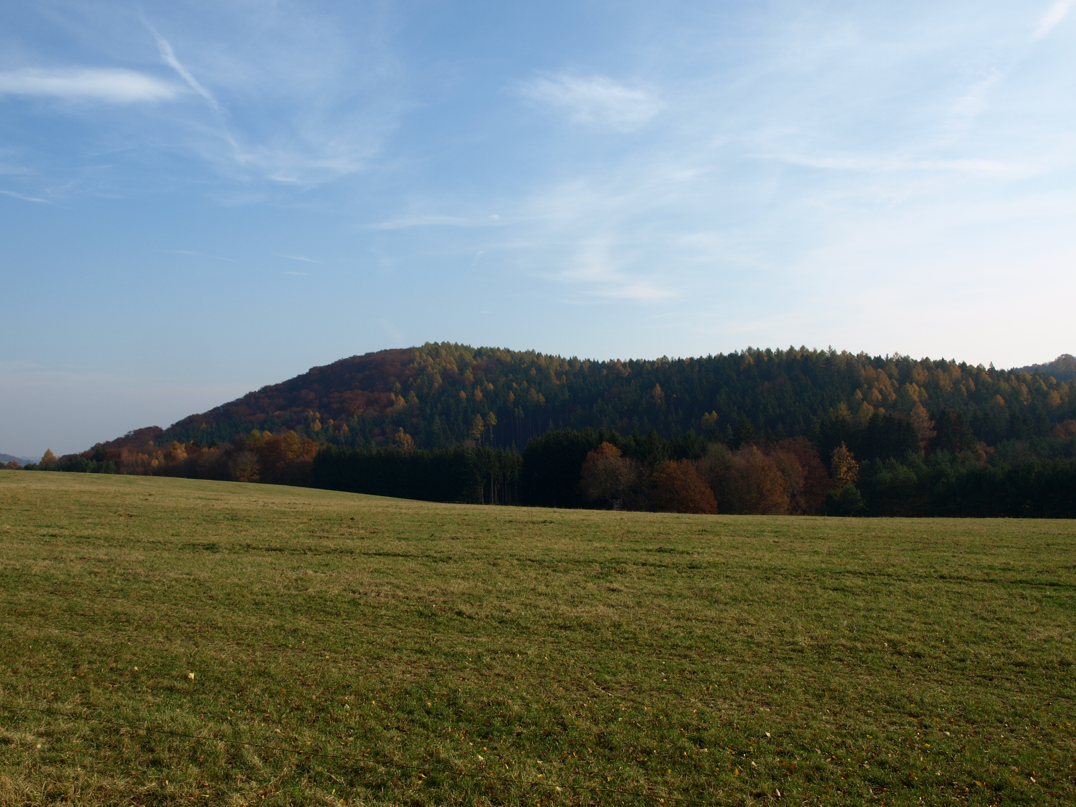 National nature reserve Ve Studeném in Benešov District, Czech Republic